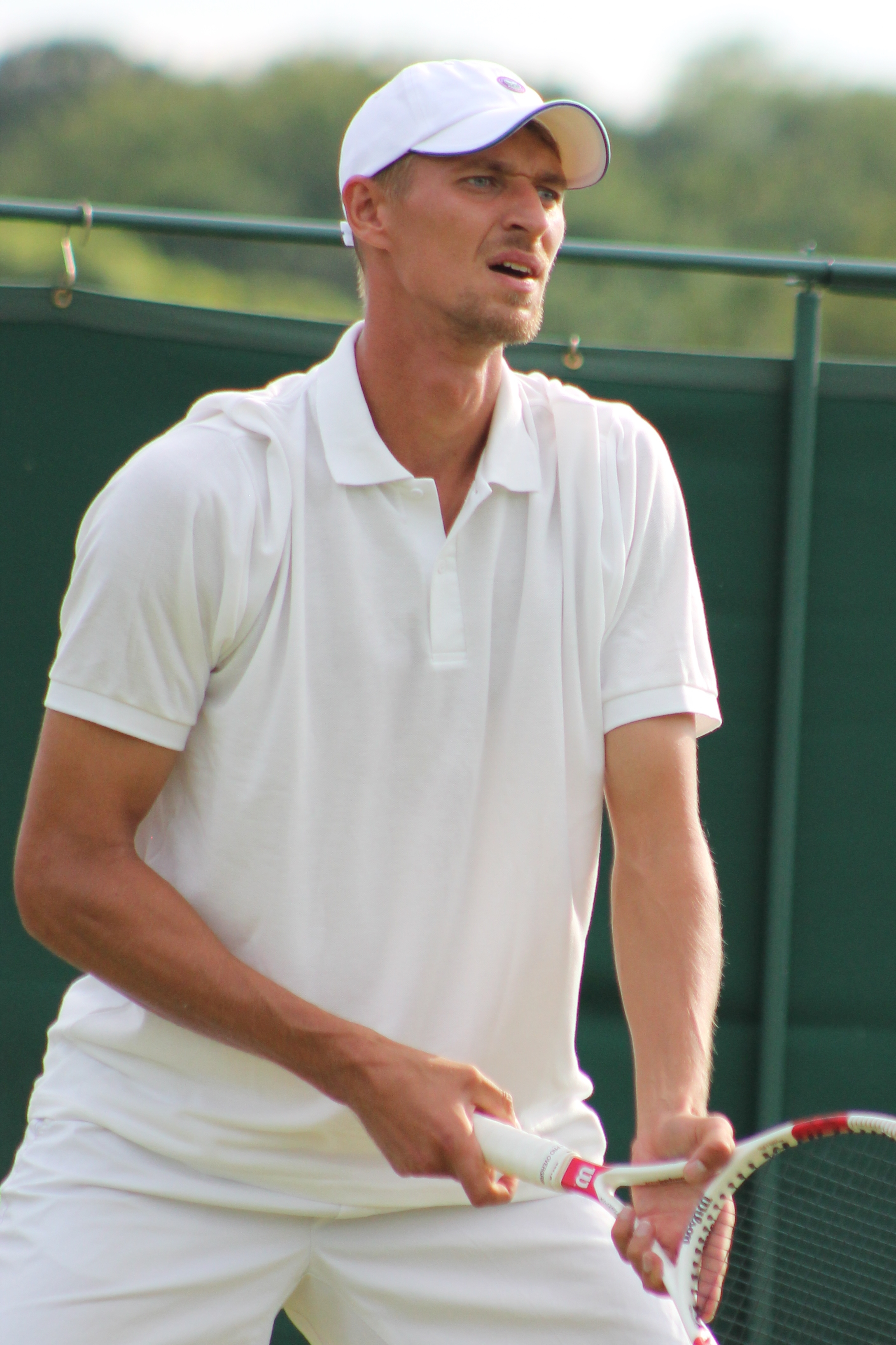 Bury WMQ15 (12)